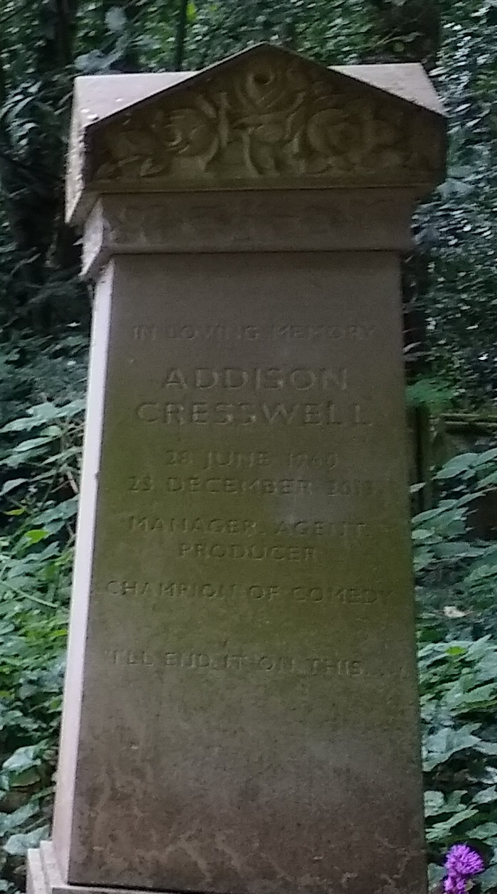 Addison Cresswell was a talent agent who founded and ran the Off the Kerb talent agency incorporating a television division called 'Open Mike Productions